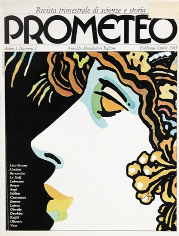 Cover of Prometeo magazine #1, feb.-apr. 1983. Arnoldo Mondadori Editore, Mondadori Group.